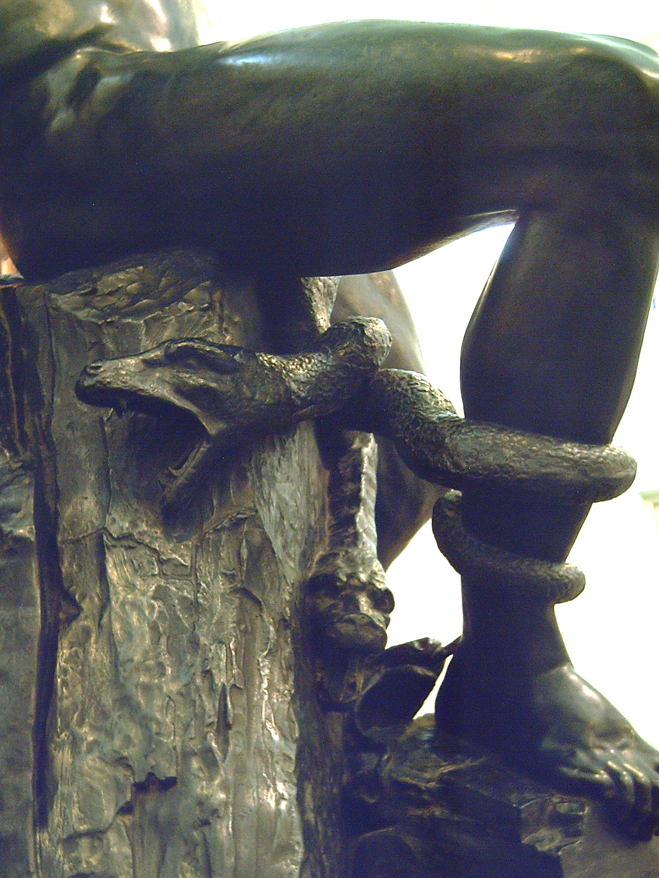 Snakes coiling around the Fallen Angel's legs.